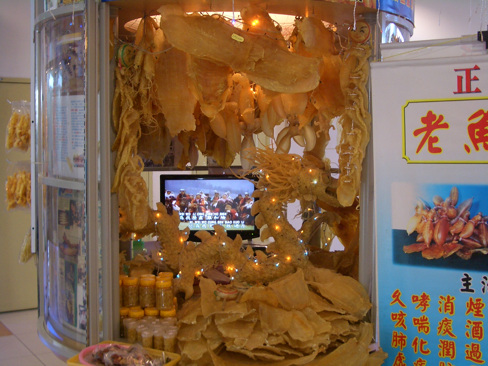 A decorated "Fish maw" kiosk in a Melaka shopping mall